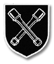 Symbol of the 36. Waffen-Grenadier-Division der SS